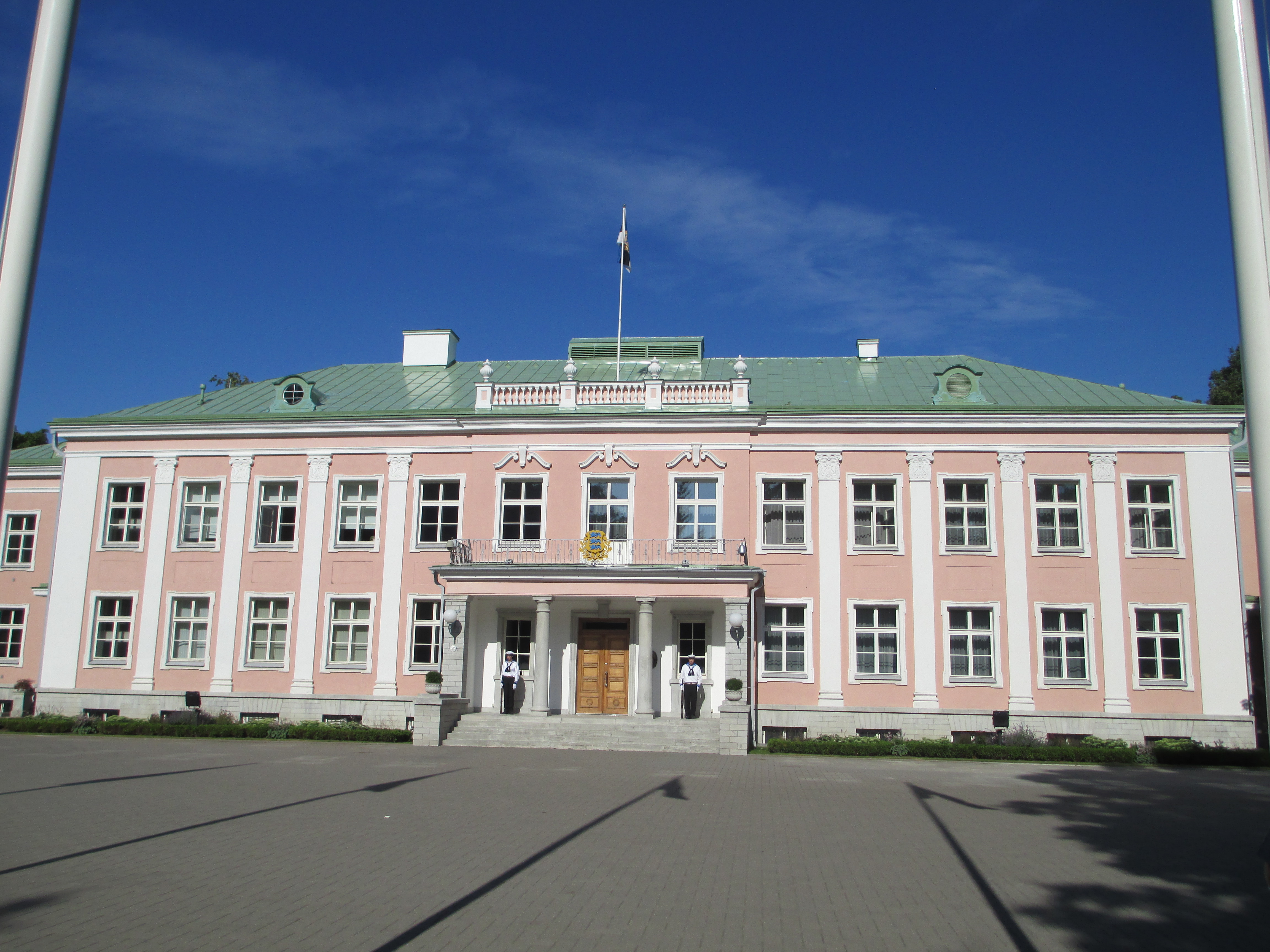 Presidential palace in Tallinn, Estonia